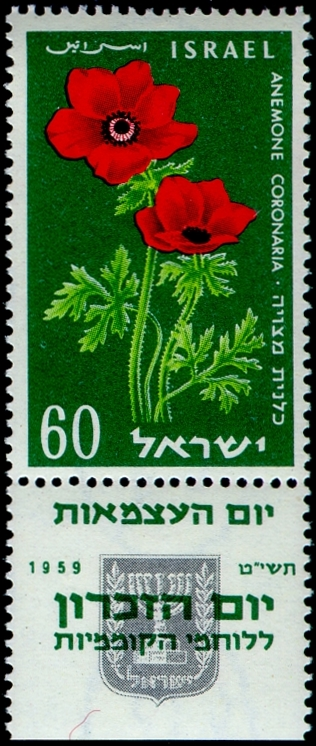 Eleventh Independence Day stamp - 60 mil - Anemone Coronaria. Inscription on tab: "The Eleventh Independence Day", "Memorial Day for the Fighters for Independence"